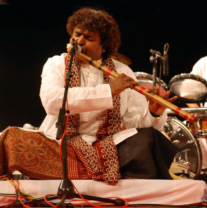 Pravin Godkhindi performing at Chowdiah Memorial Hall for the folk ensemble "Laya Lavanya" directed by Vidwan Anoor Ananthakrishna Sharma